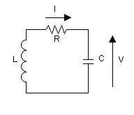 LC circuit with losses. 2006